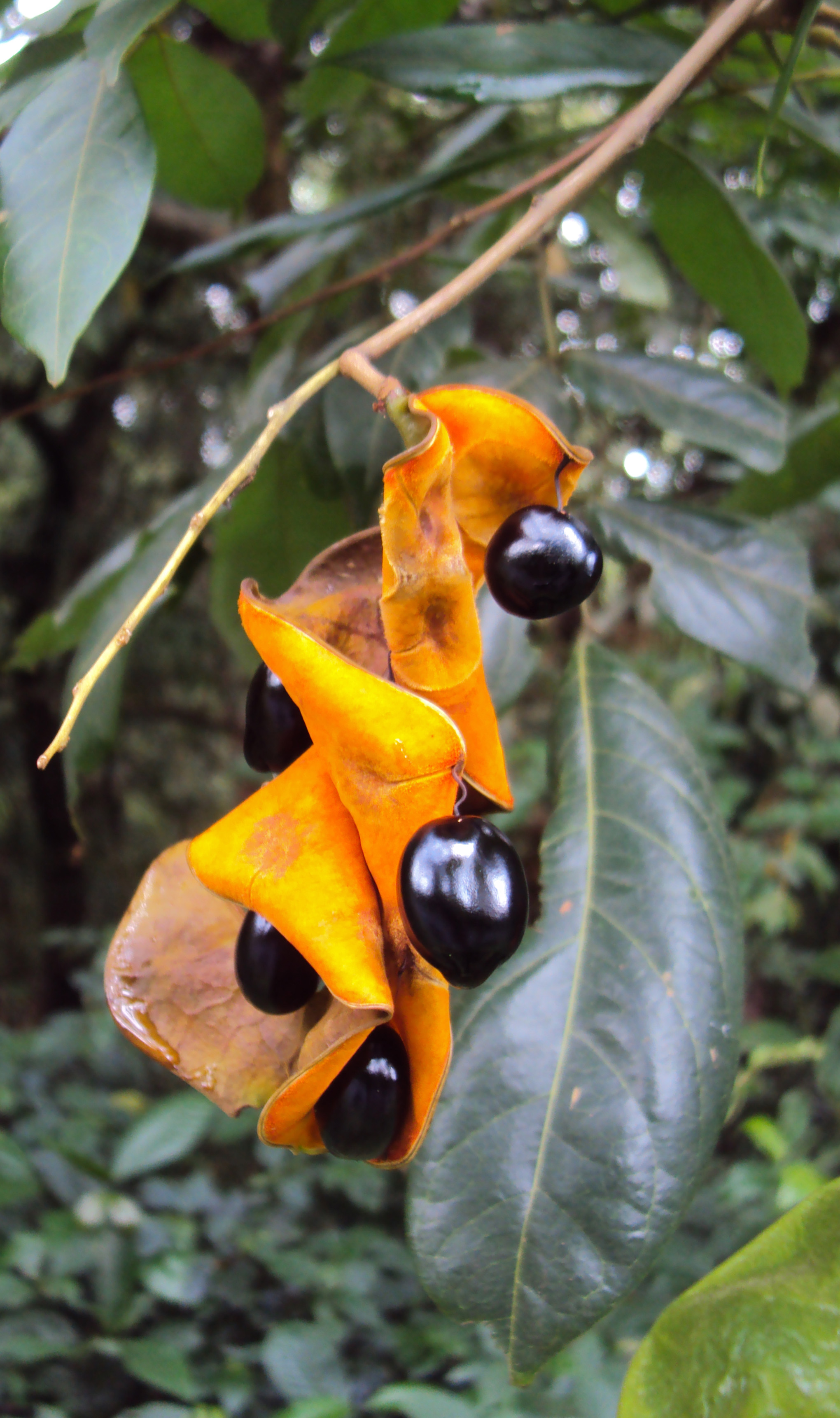 Archidendron bigeminum